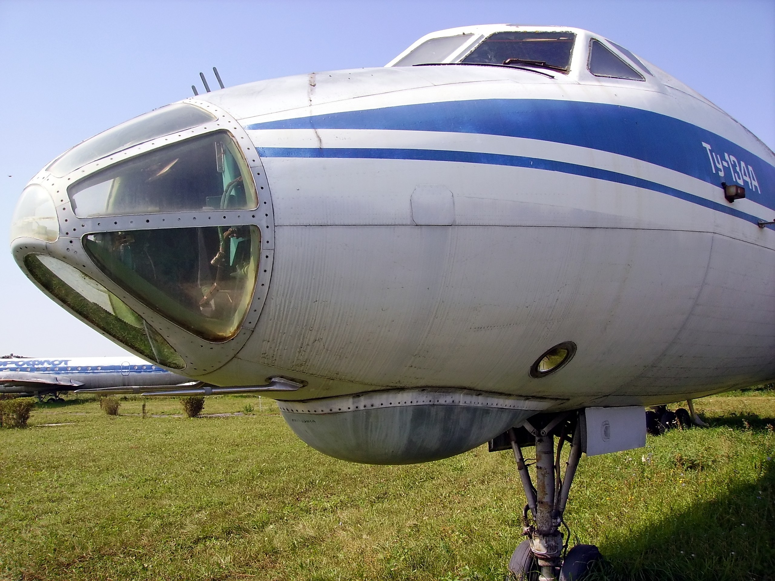 Tupolev Tu-134A in Ulyanovsk Aircraft Museum